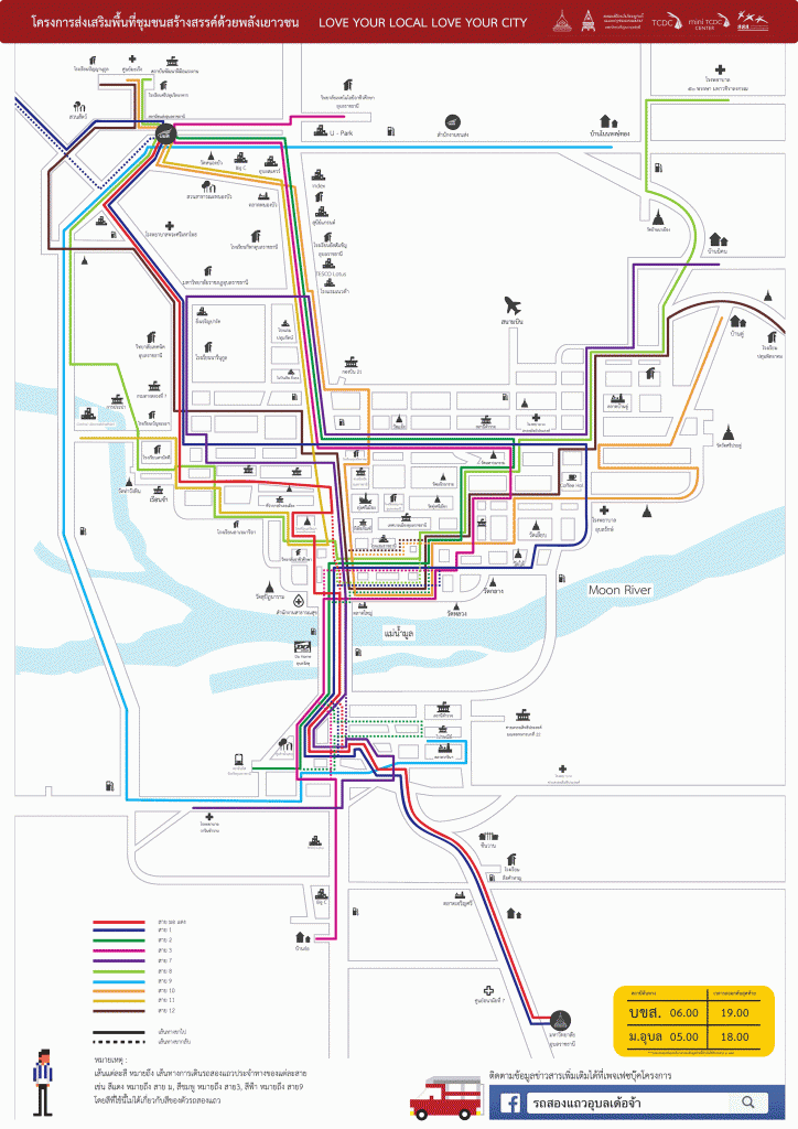 Local cab using in Ubon Ratchathani (Produce by students of Ubun Ratchathani University)